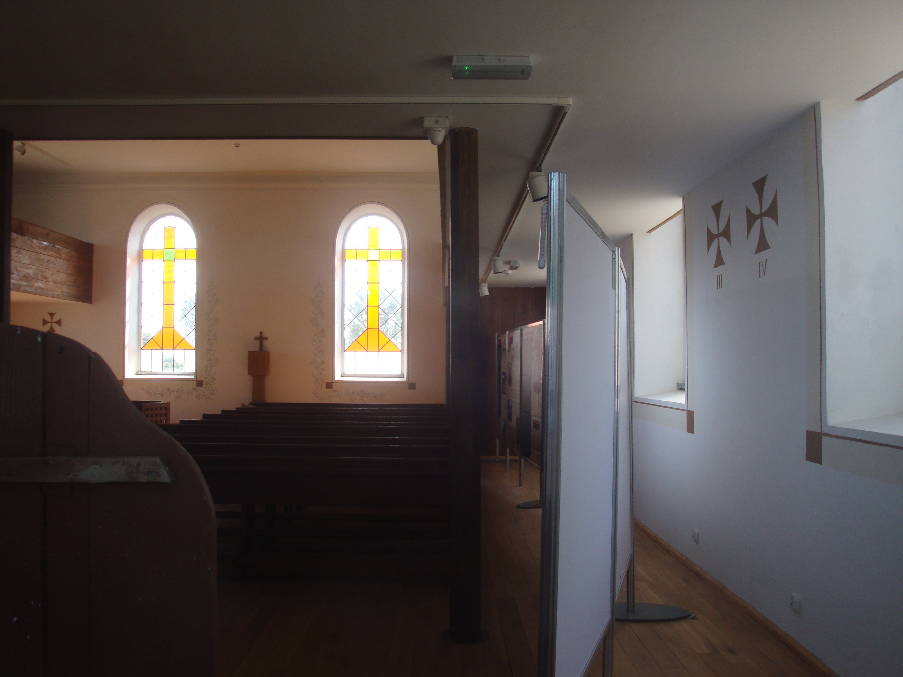 Church in Wiączemin Polski (Masovian Voivodeship, Poland. Since 2013 part of open-air museum.